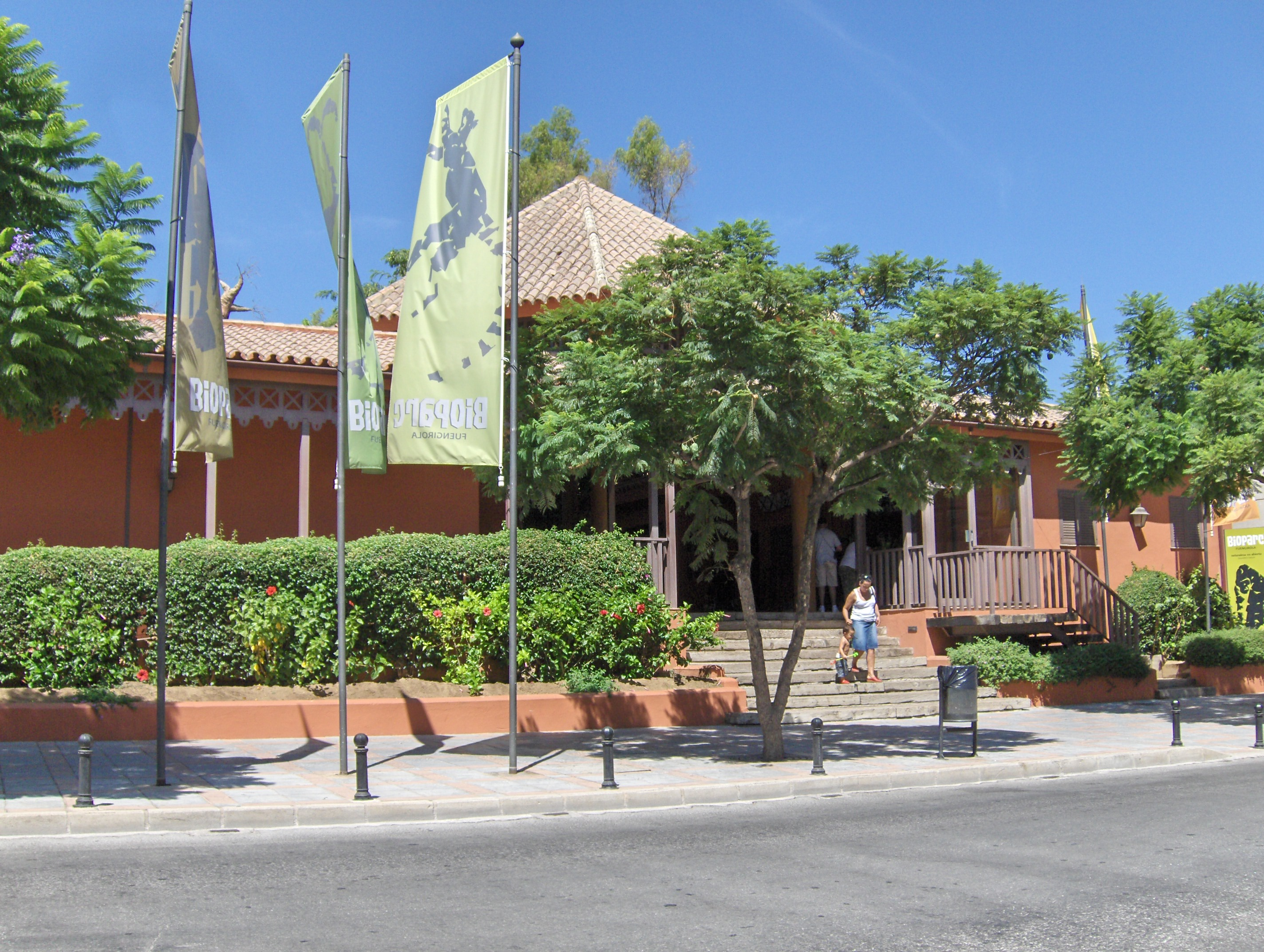 Fuengirola Zoo